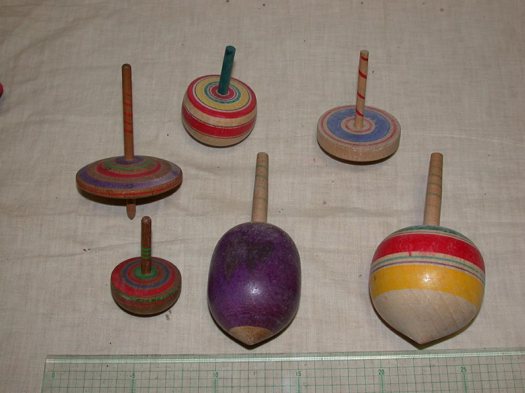 Japanese Spinning Tops from own collection Author;Keisotyo